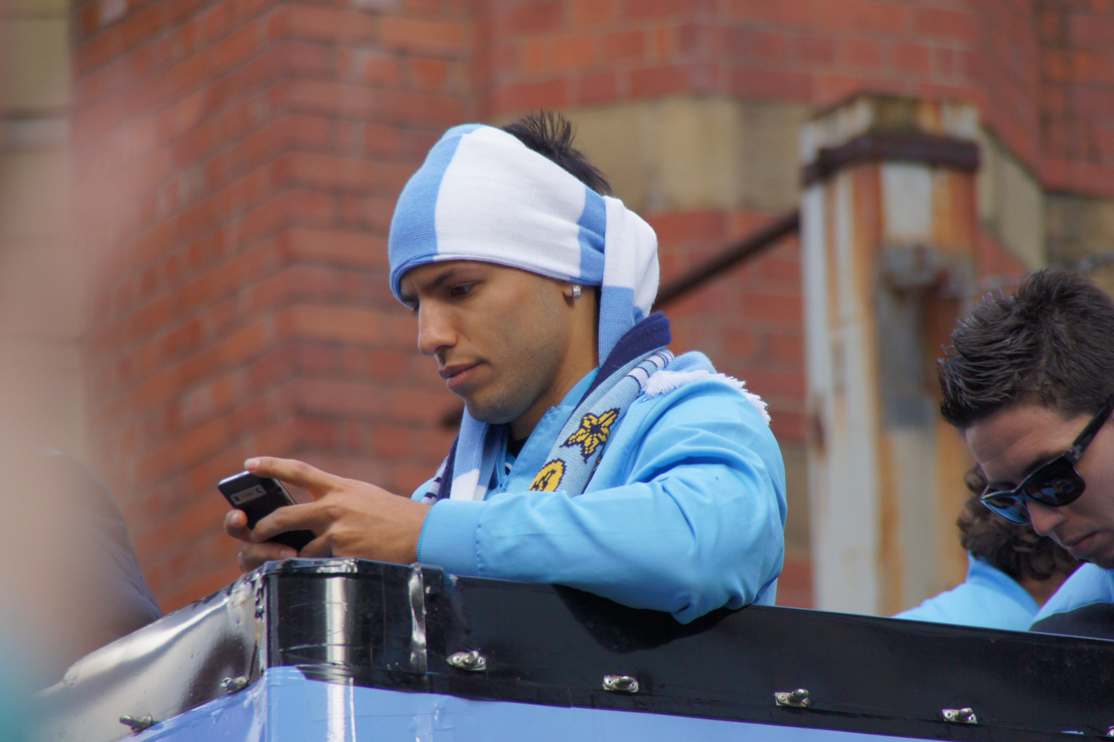 Manchester City champions victory parade 2012